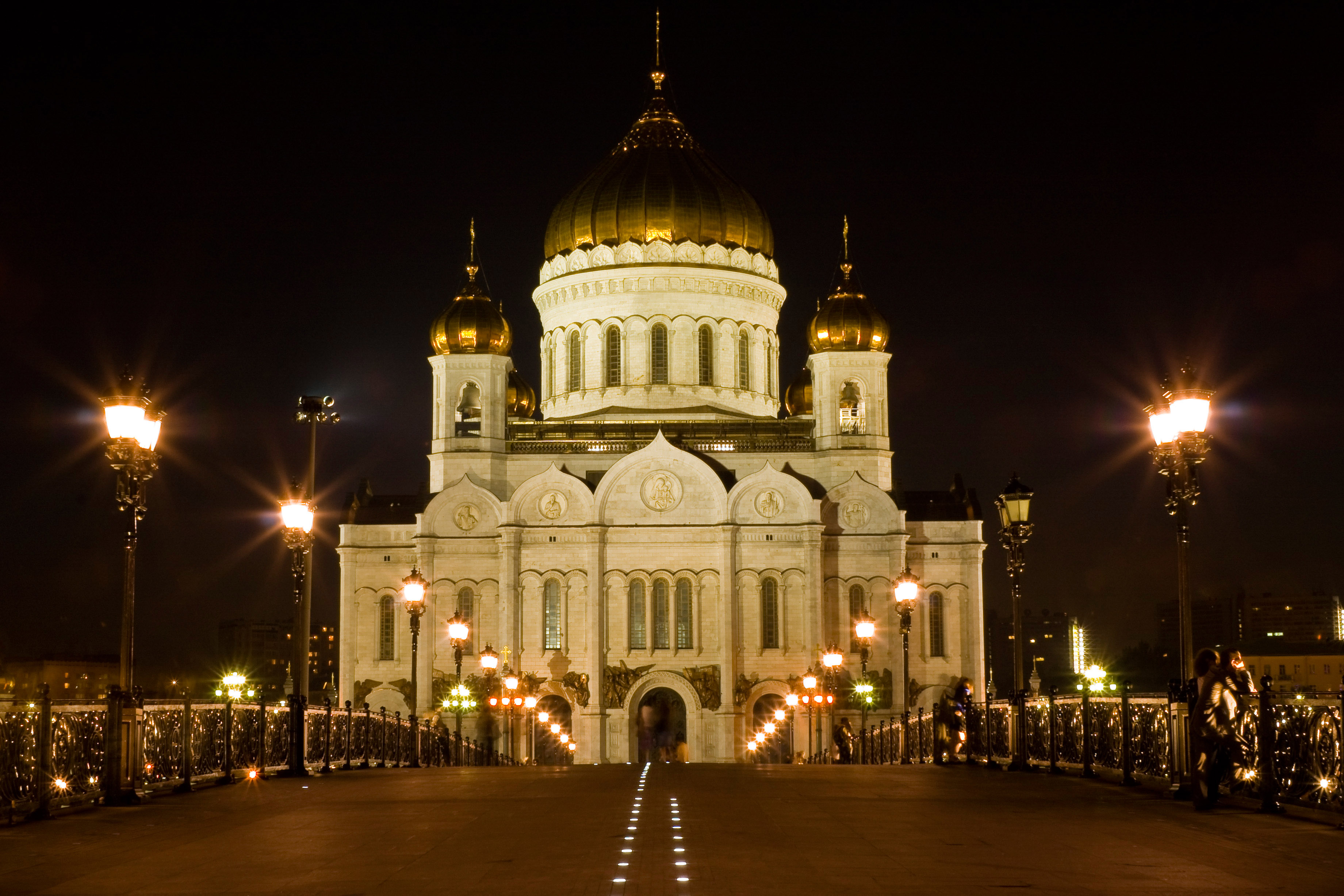 Temple of Christ the Savior. View from Patriarchy Bridge.